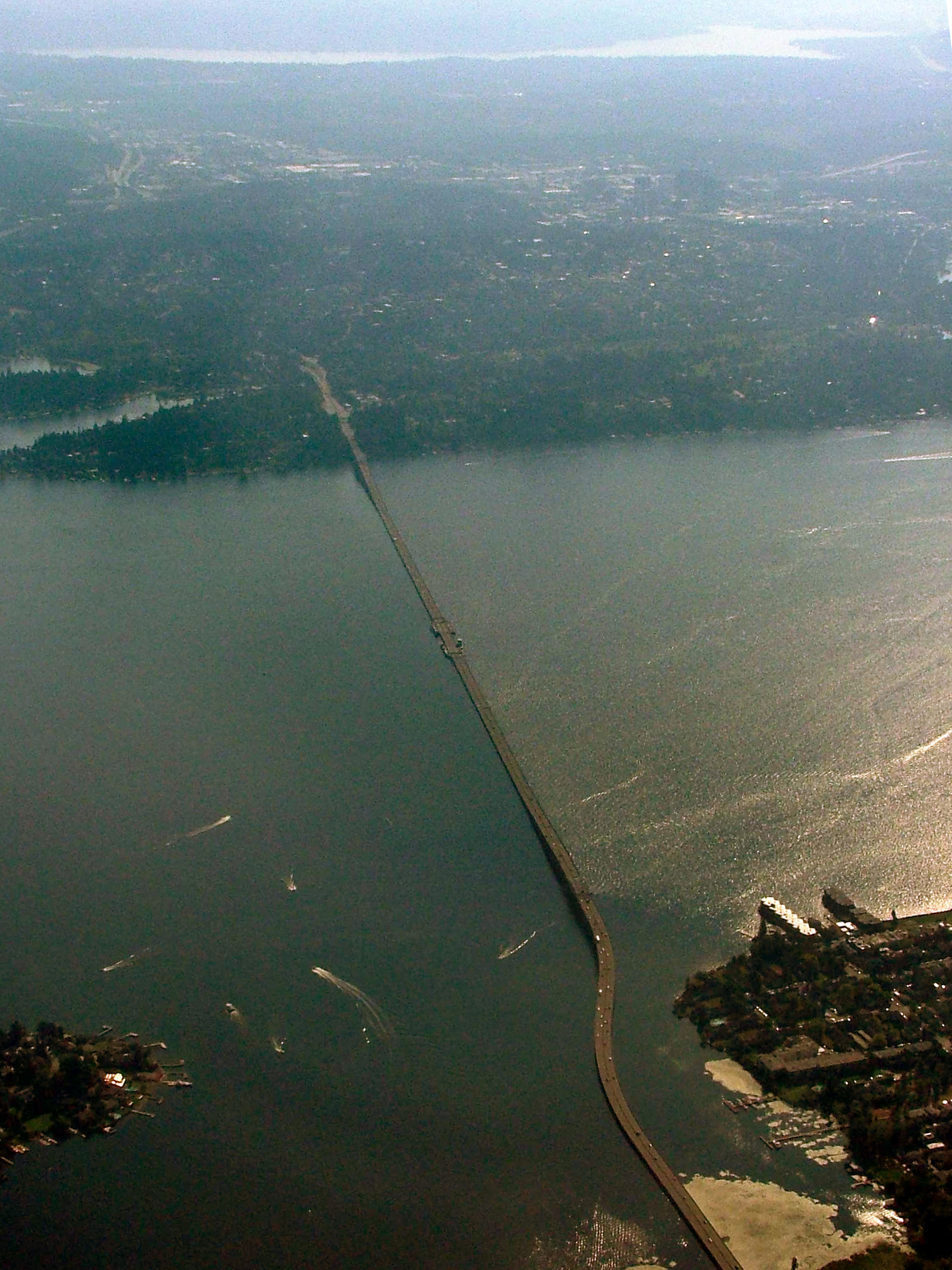 Description: State Route 520 floating bridge in Washington State, USA. Bellevue, Washington in the middle ground, Lake Sammamish in the distance Author: self Date: 4Sep2006